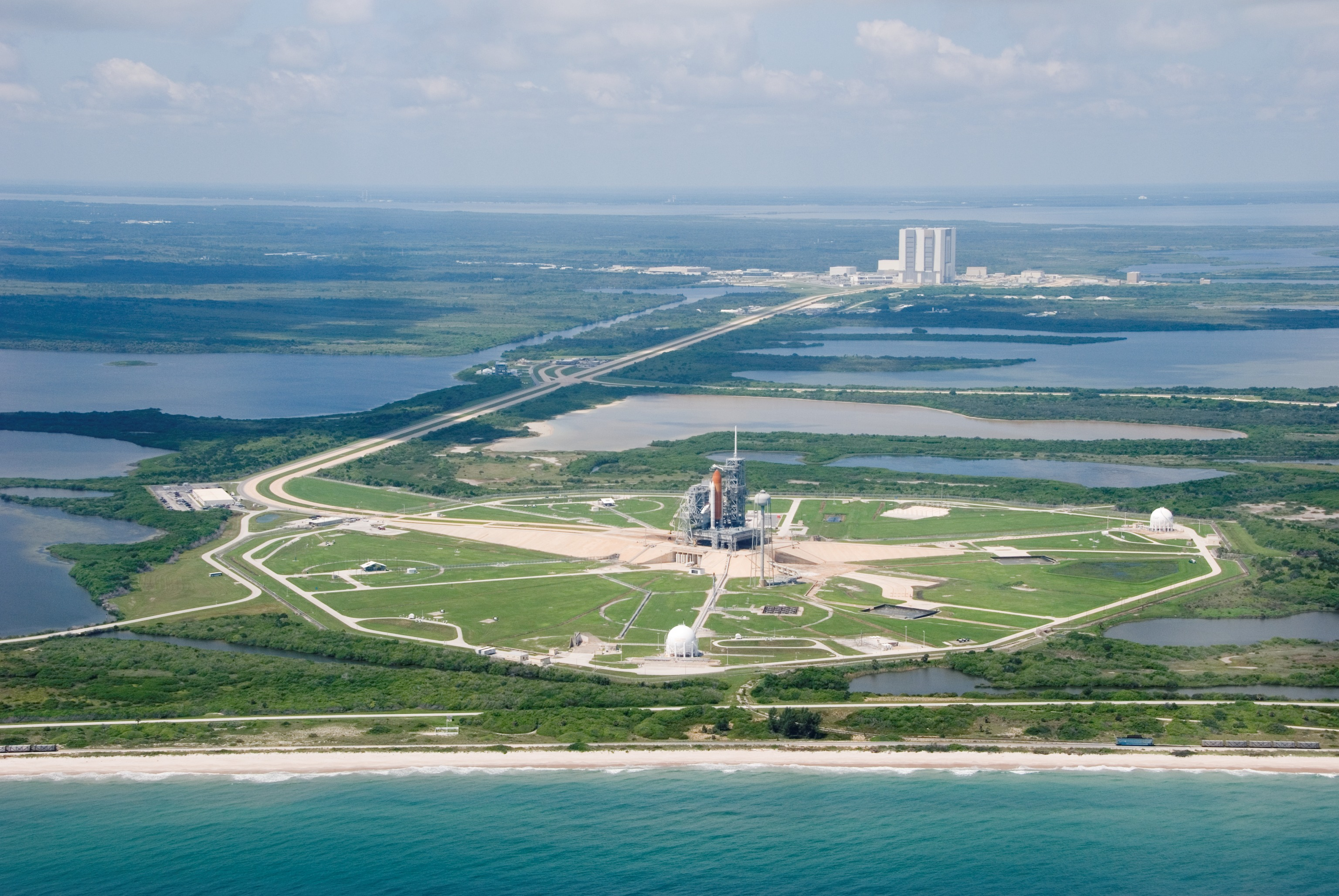 An aerial view of part of the Kennedy Space Center's giant complex featuring the Space Shuttle Endeavour and its support stack of hardware on launch pad 39A, the Vehicle Assembly Building (VAB) and surrounding area. Space Shuttle Endeavour is shown in position on the pad for mission STS-118. This image was photographed from a NASA T-38 aircraft.